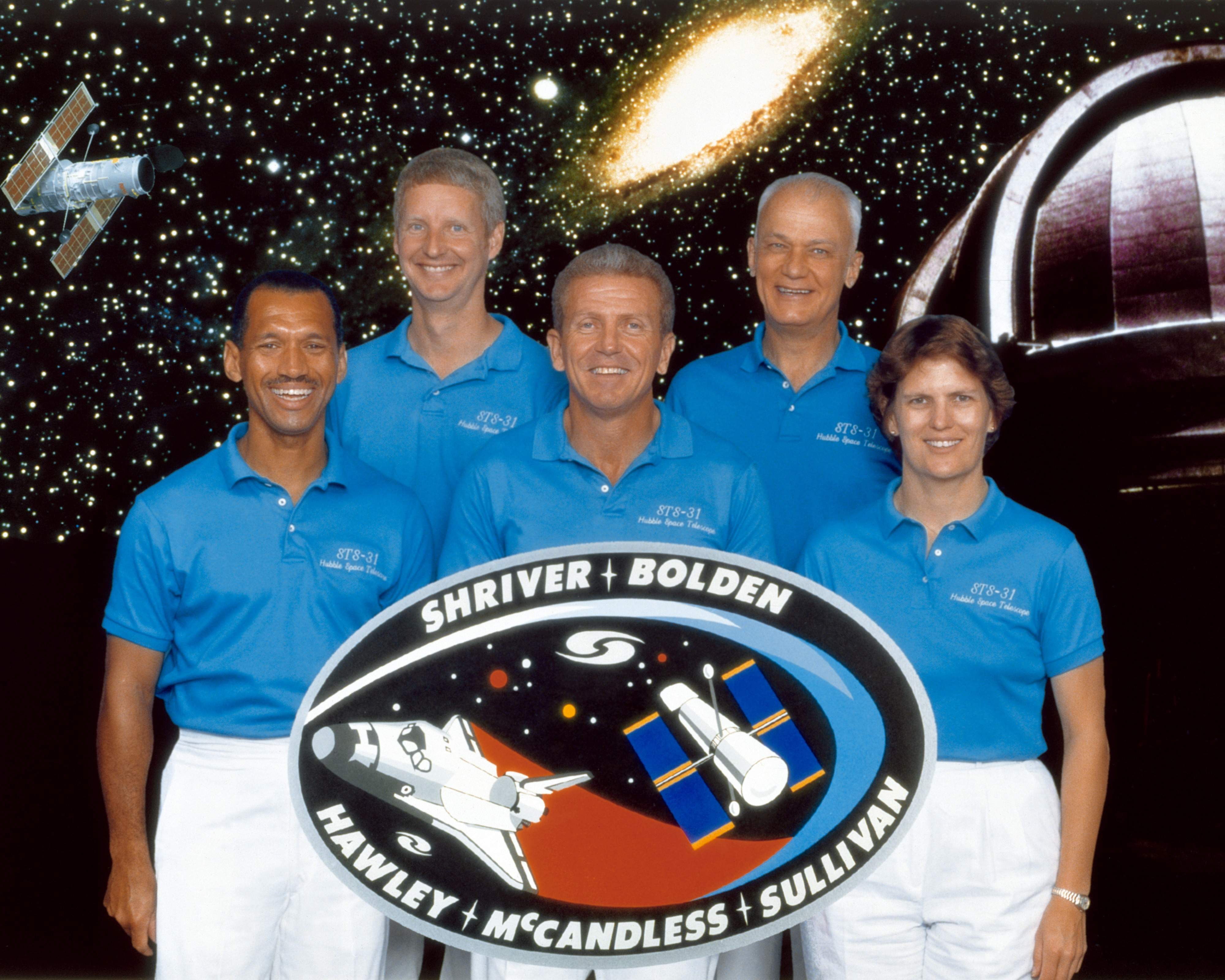 The STS-31 crew of five included (left to right) Charles F. Bolden, pilot; Steven A. Hawley, mission specialist; Loren J. Shriver, commander; Bruce McCandless, mission specialist; and Kathryn D. Sullivan, mission specialist. Launched aboard the Space Shuttle Discovery on April 24, 1990 at 8:33:51am (EDT), the primary payload was the Hubble Space Telescope. This was the first flight to use carbon brakes at landing.